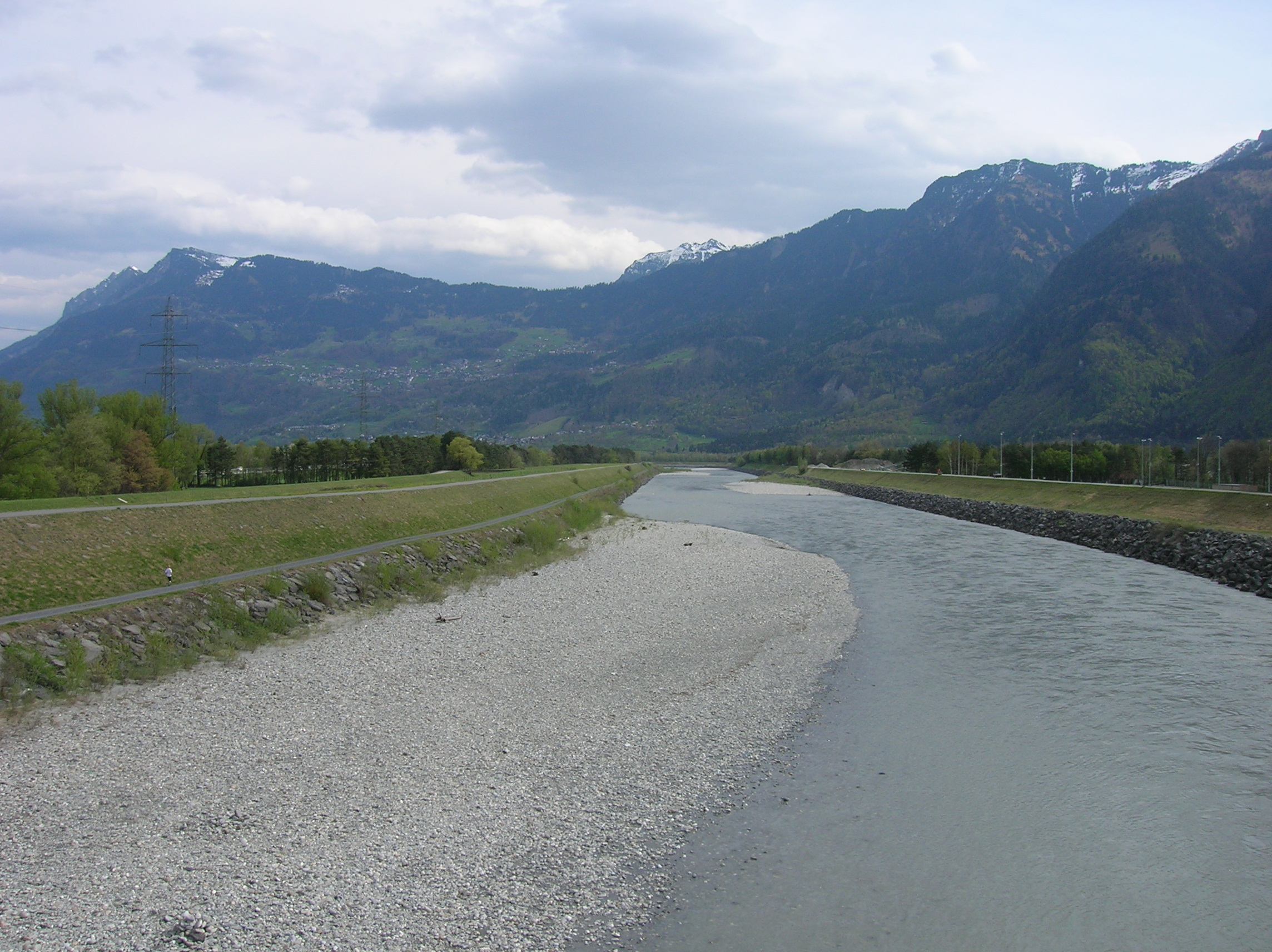 The Rhine at Balzers - Trübbach (Switzerland - Liechtenstein)